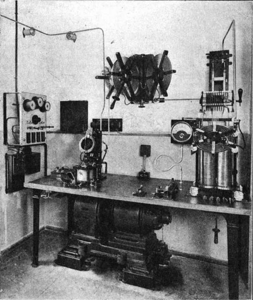 Radio room on passenger ship from about 1917 equipped with Telefunken Type D spark wireless telegraphy set. It has an input power of 1.5 kW, and transmits on 600 - 200 meters (500 - 1500 kHz) with an inductively-coupled quenched-gap spark transmitter and a crystal receiver. The motor-alternator and transformer under the desk transforms the ship's DC power to 8000V at 500 Hz to run the spark gap. The transformer charges the Leyden jar capacitors (right) up, which discharge through the quenched spark gap and spiral oscillation transformer, producing radio frequency oscillations, which pass through the variometer loading coil (top) to the wire antenna strung between the masts of the ship. The radio operator transmits information by tapping on the telegraph key on the desk, turning the transmitter on and off to spell out text messages in Morse code.